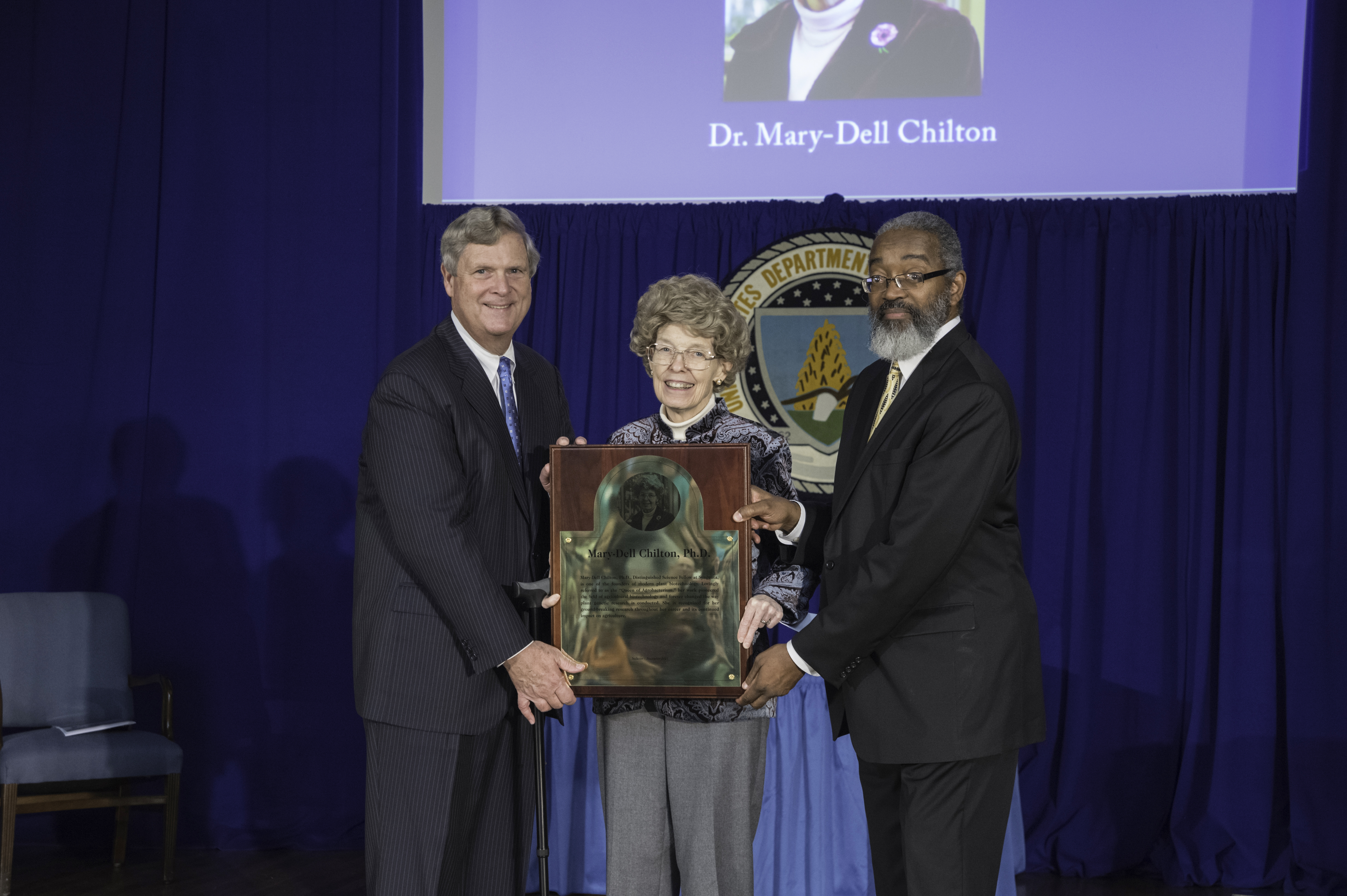 Giving of the Hall of Heroes Plaque to Dr. Mary-Dell Chilton, Ph.D. at USDA’s 2015 Abraham Lincoln Honor Awards Ceremony in Washington, D.C. on Thursday, Nov. 5, 2015.